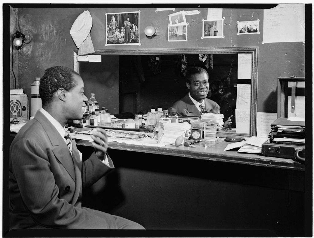 Louis Armstrong, dressing room, Aquarium (Jazz Club), New York